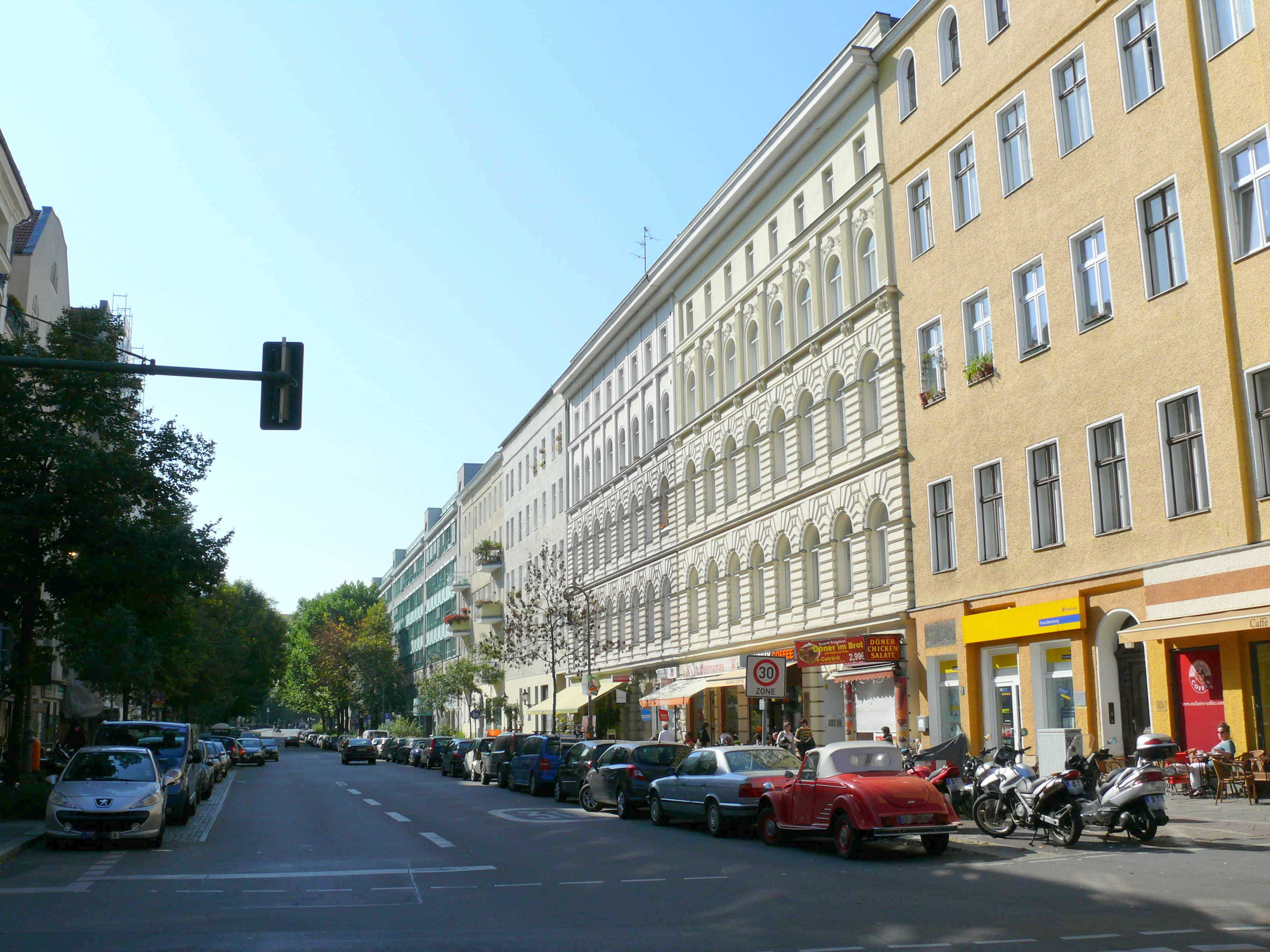 Berlin-Moabit Kirchstraße